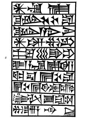 Standard 10-line brick inscription of Adad-šuma-uṣur recording work on the Ekur in Nippur